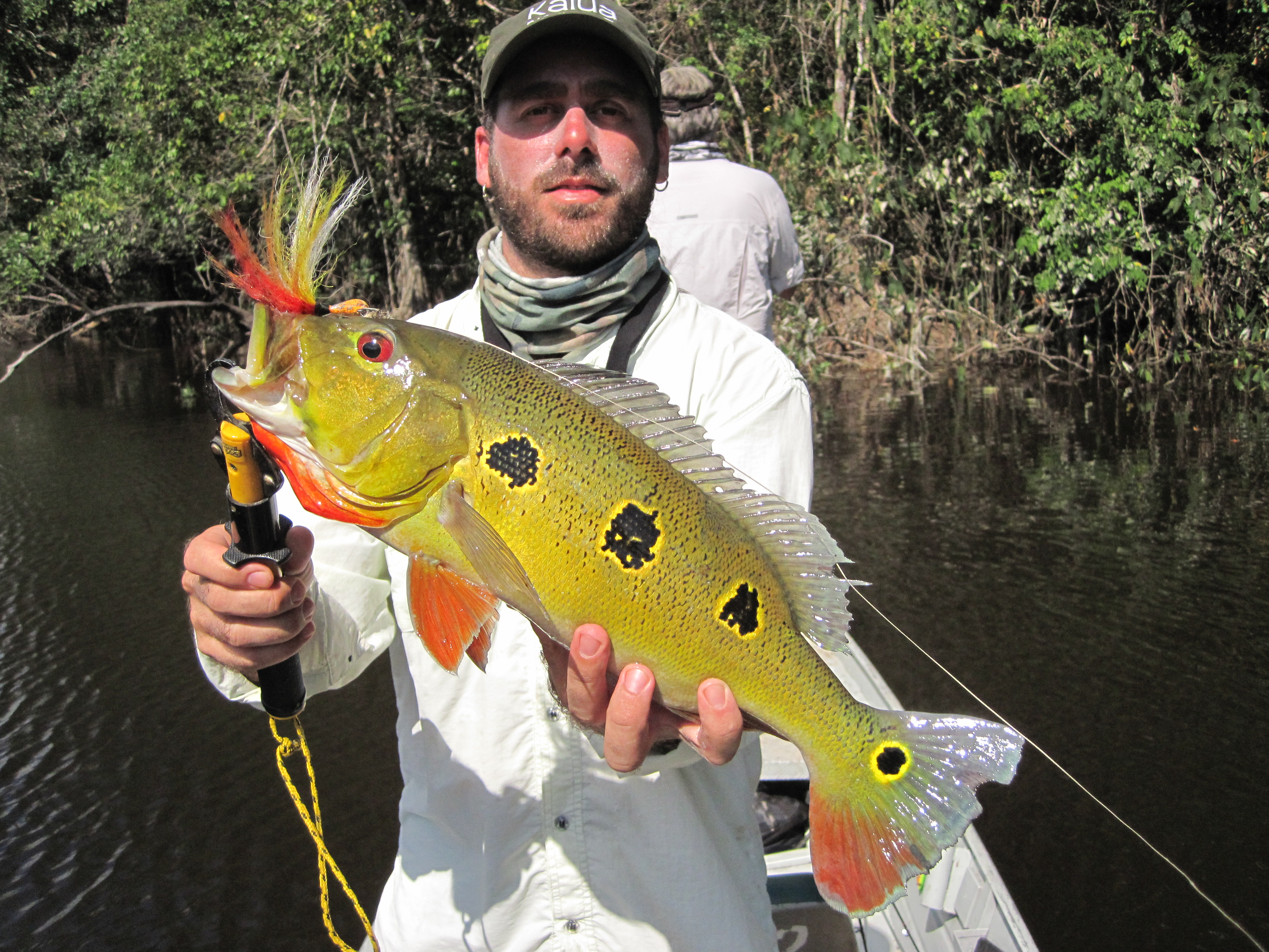 Sport fishing in the Brazilian Amazon will